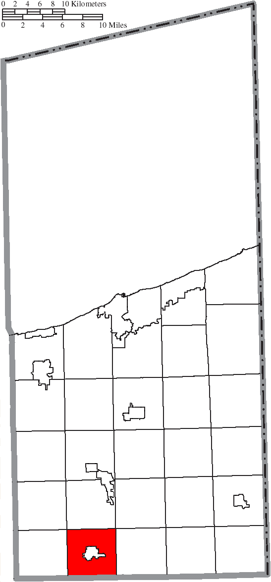 Map of the municipal and township boundaries of Ashtabula County, Ohio, United States, as of the 2000 census, with the location of Orwell Township highlighted. Township borders are shown only in unincorporated areas in order to differentiate incorporated and unincorporated areas more clearly.